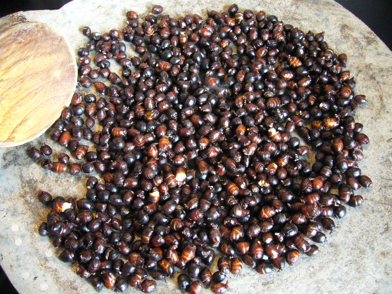 roasted zompopos de mayo